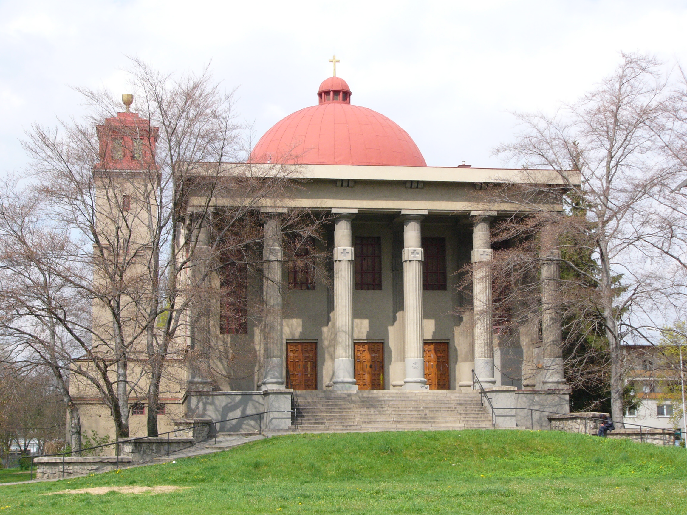 Husův sbor in Olomouc (Czech Republic).